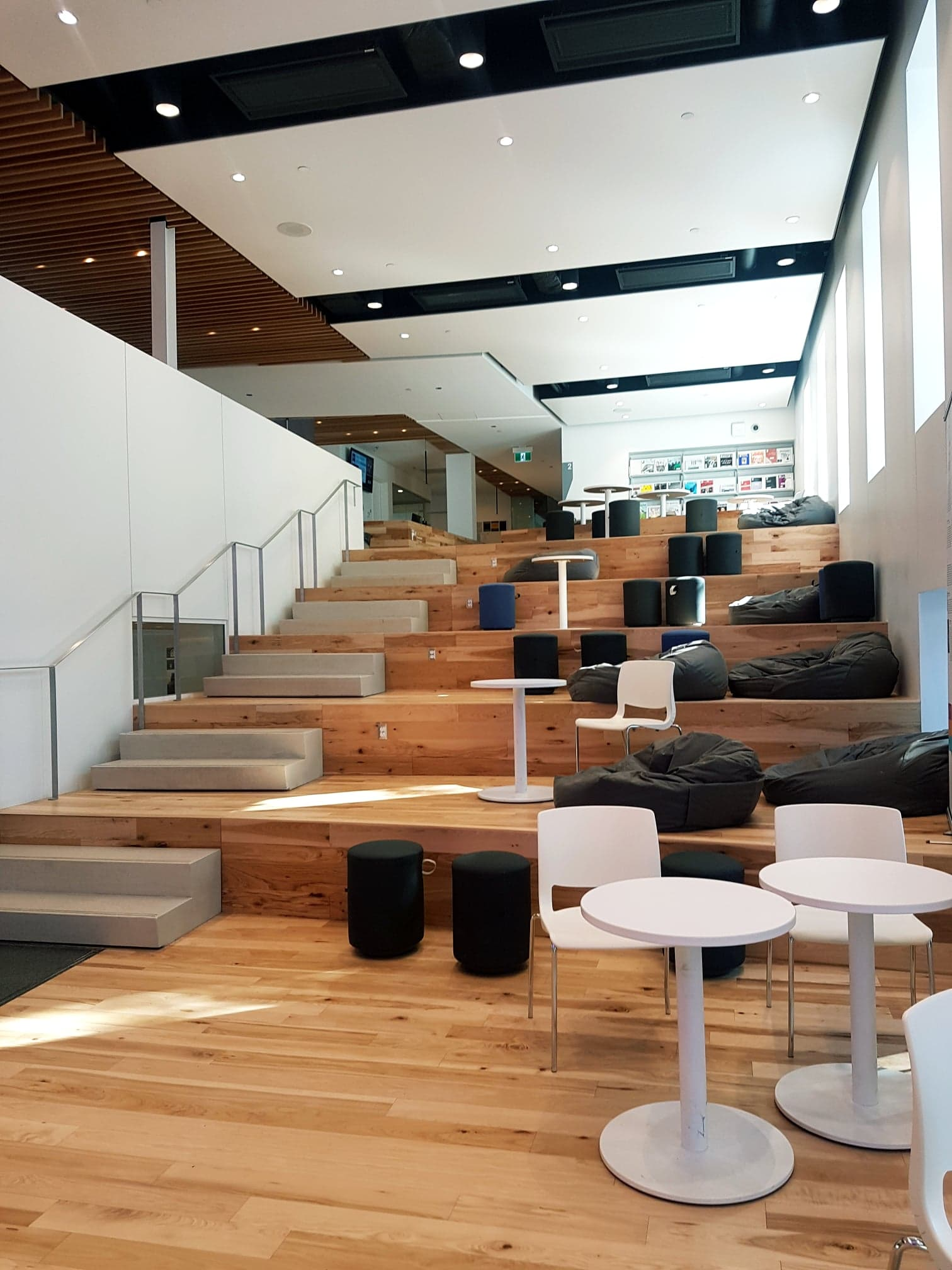 Interior of the Agora of the newly renovated John Bassett Memorial Library in 2018